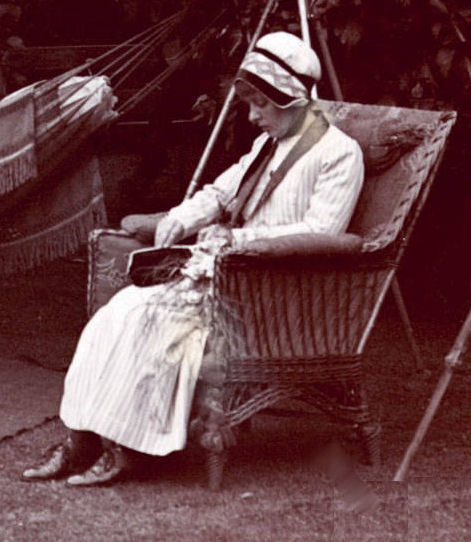 Florence Macfarlane at Dorset Hall, Merton Park c.1912 Licensing